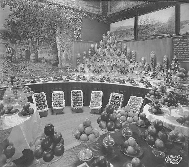 Apple exhibit, Canada Building, Alaska-Yukon-Pacific-Exposition, Seattle, Washington, 1909 Photographer: Nowell, Frank H. Subjects (LCTGM): Apples--Canada Apples--Washington (State)--Seattle Merchandise displays--Washington (State)--Seattle Alaska-Yukon-Pacific Exposition (1909 : Seattle, Wash.)--Facilities--Washington (State)--Seattle Digital Collection: Alaska-Yukon-Pacific Exposition Collection Item Number: AYP1082 Persistent URL: University of Washington Libraries. Digital Collections #//content.lib.washington.edu Panorama